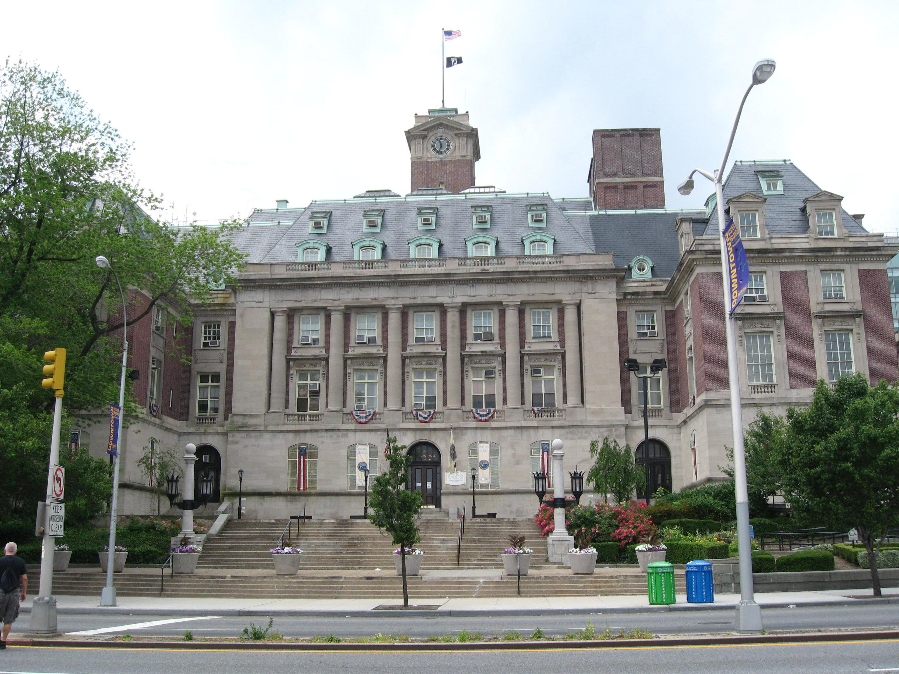 Looking southwest and up at Staten Island Boro Hall from the street, in Saint George, Staten Island#The Heyday on a cloudy early afternoon, late June 2008.